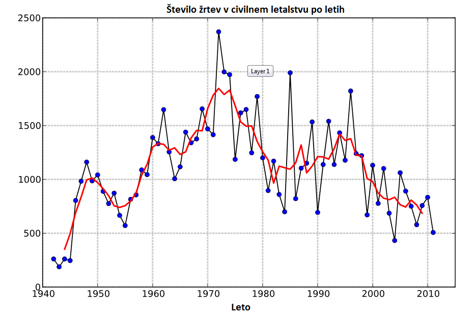 Casulties in aviation; based on